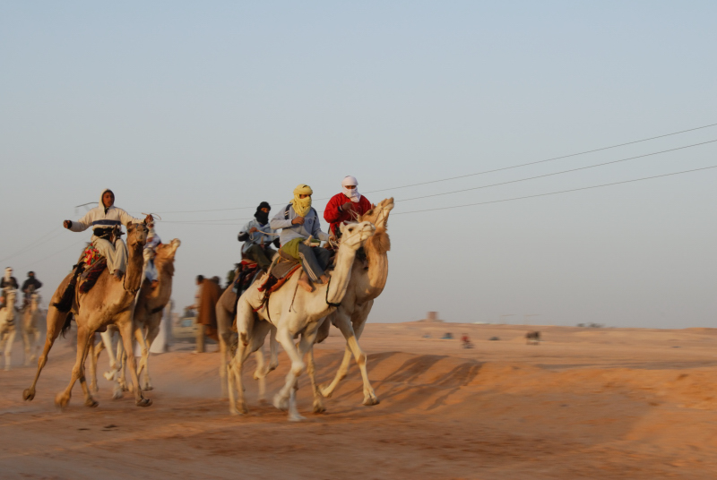 Camel Race in Ouargla, near Hassi Messaoud, Algeria